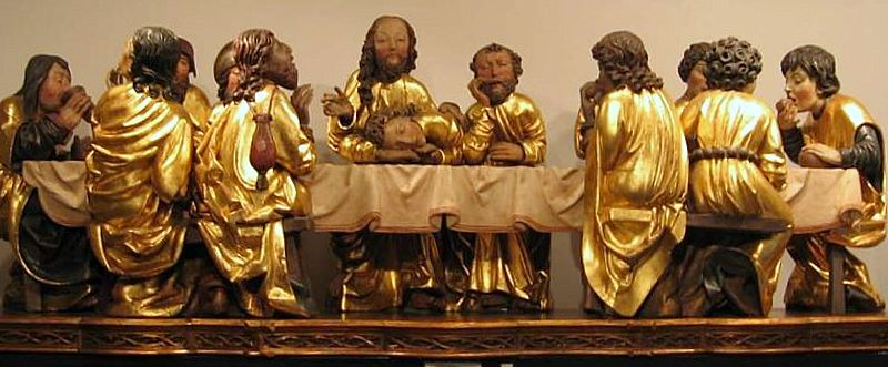 "The Last Supper" - museum copy of Master Paul's sculpture, originally under the main altar in St. Jacob's basilica in Levoča.